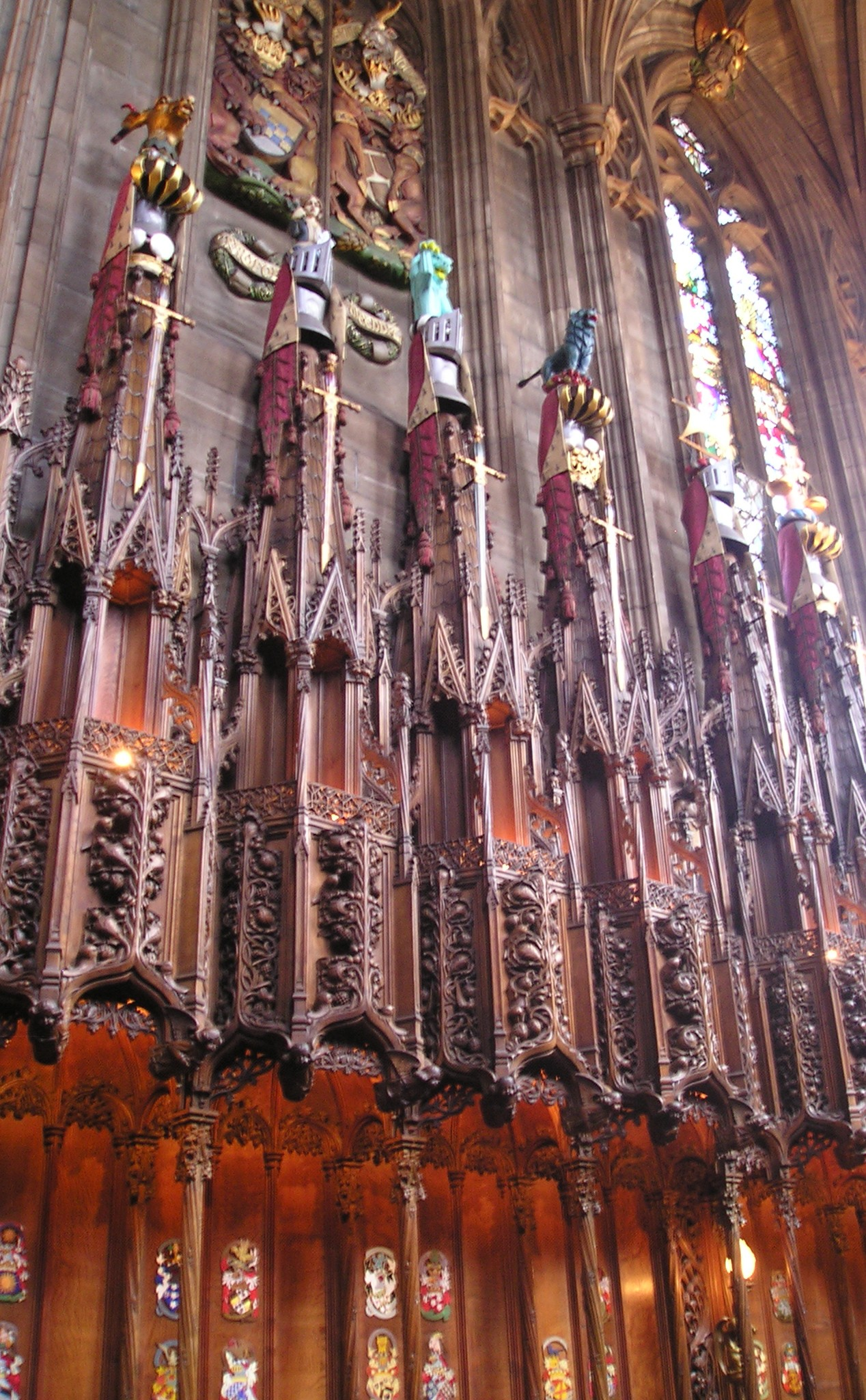 The swords, helms, and crests of Knights of the Thistle, displayed above their stalls in the Thistle Chapel, St Giles Cathedral, Edinburgh